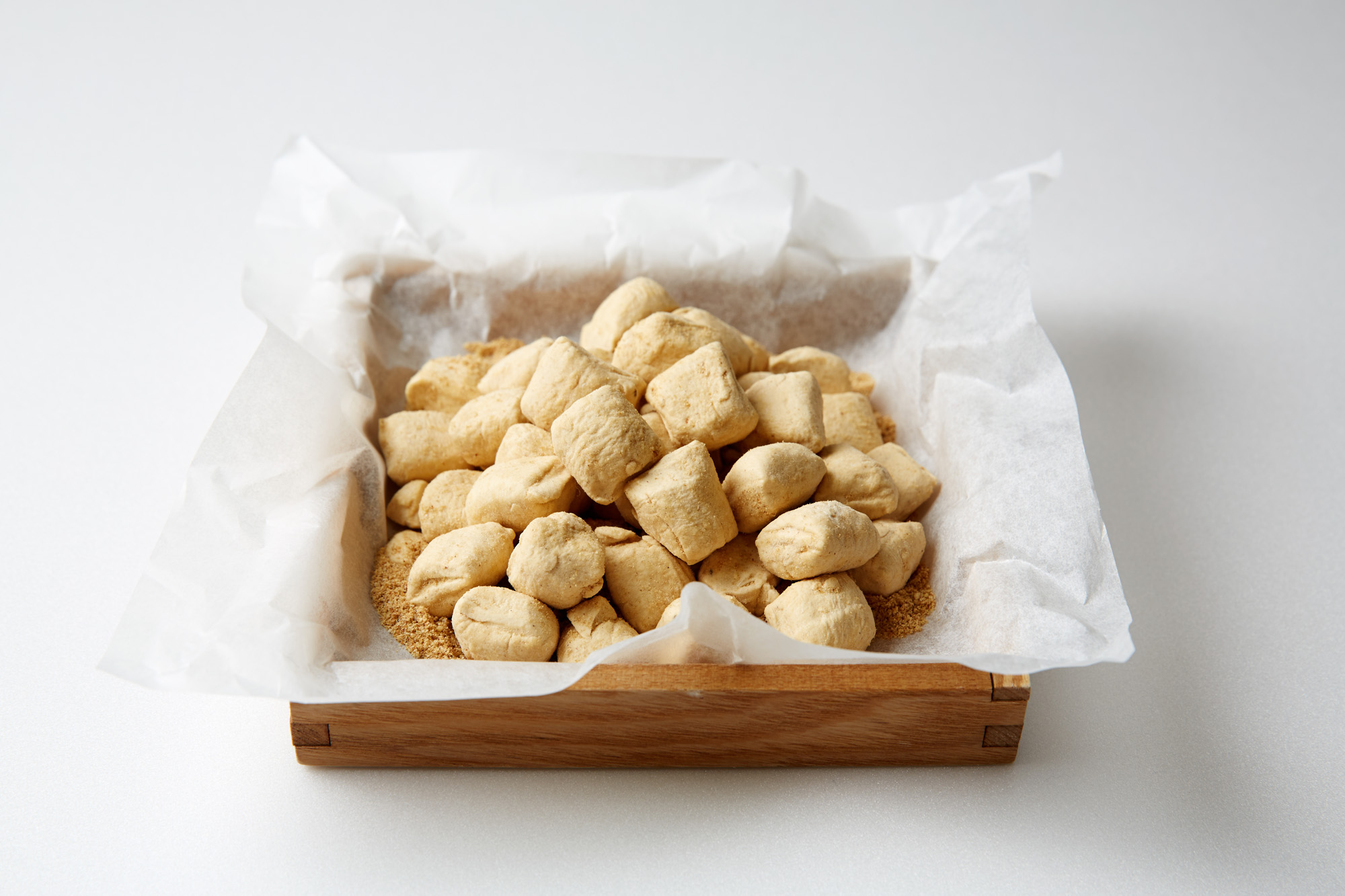 Yeot, sticky sweet